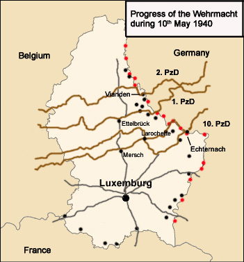 Progress of the Wehrmacht through Luxembourg May 1940